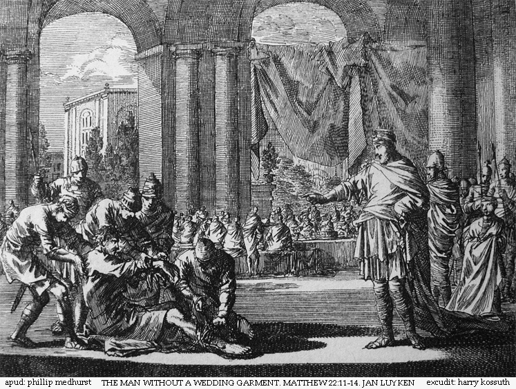 An etching by Jan Luyken illustrating Matthew 22:11-14 in the Bowyer Bible, Bolton, England.